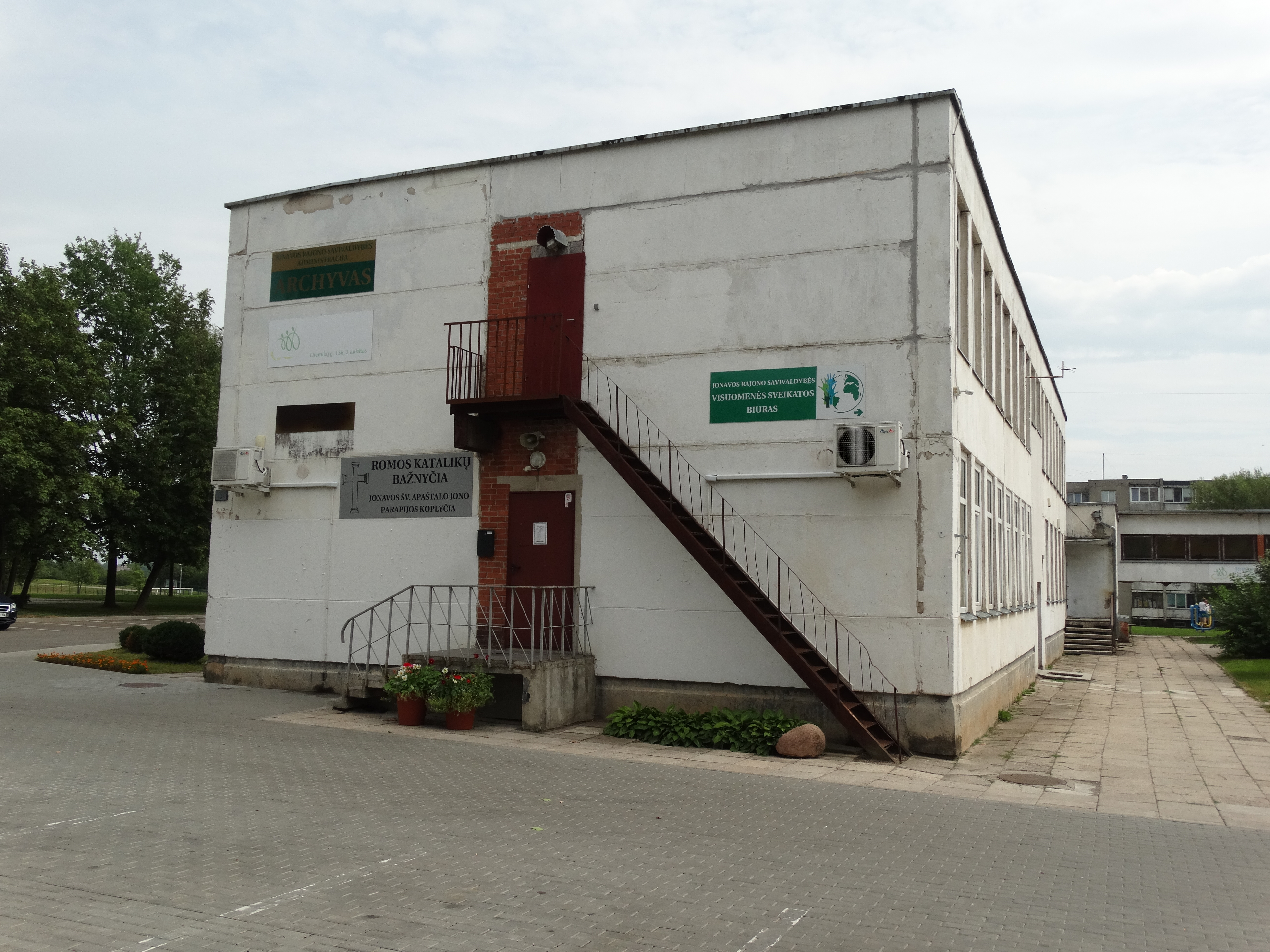 St. John the Apostle chapel, Jonava, Lithuania